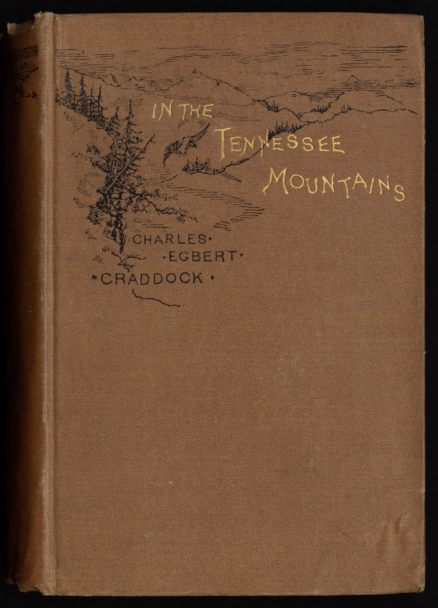 File name: 06_04_000124Title: CRADDOCK(1884) In the Tennessee mountainsDate issued: 1884Genre: Book coversNotes: Craddock, Charles Egbert, 1850-1922 (Author)Collection: Sarah Wyman Whitman BindingsLocation: Boston Public Library, Special CollectionsRights: No known copyright restrictions.